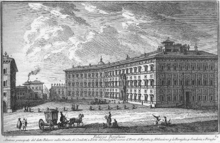 1) Main entrance to the palace along Strada dei Condotti; 2) Prospect of the palace over Porto di Ripetta; 3) Building for the "family" (people working for the Borghese either as servants or in the administration of their properties); 4) Stables and coach house.